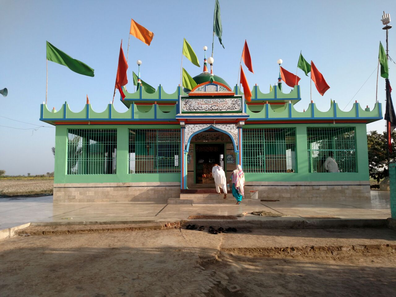 maskeen shah bukhari